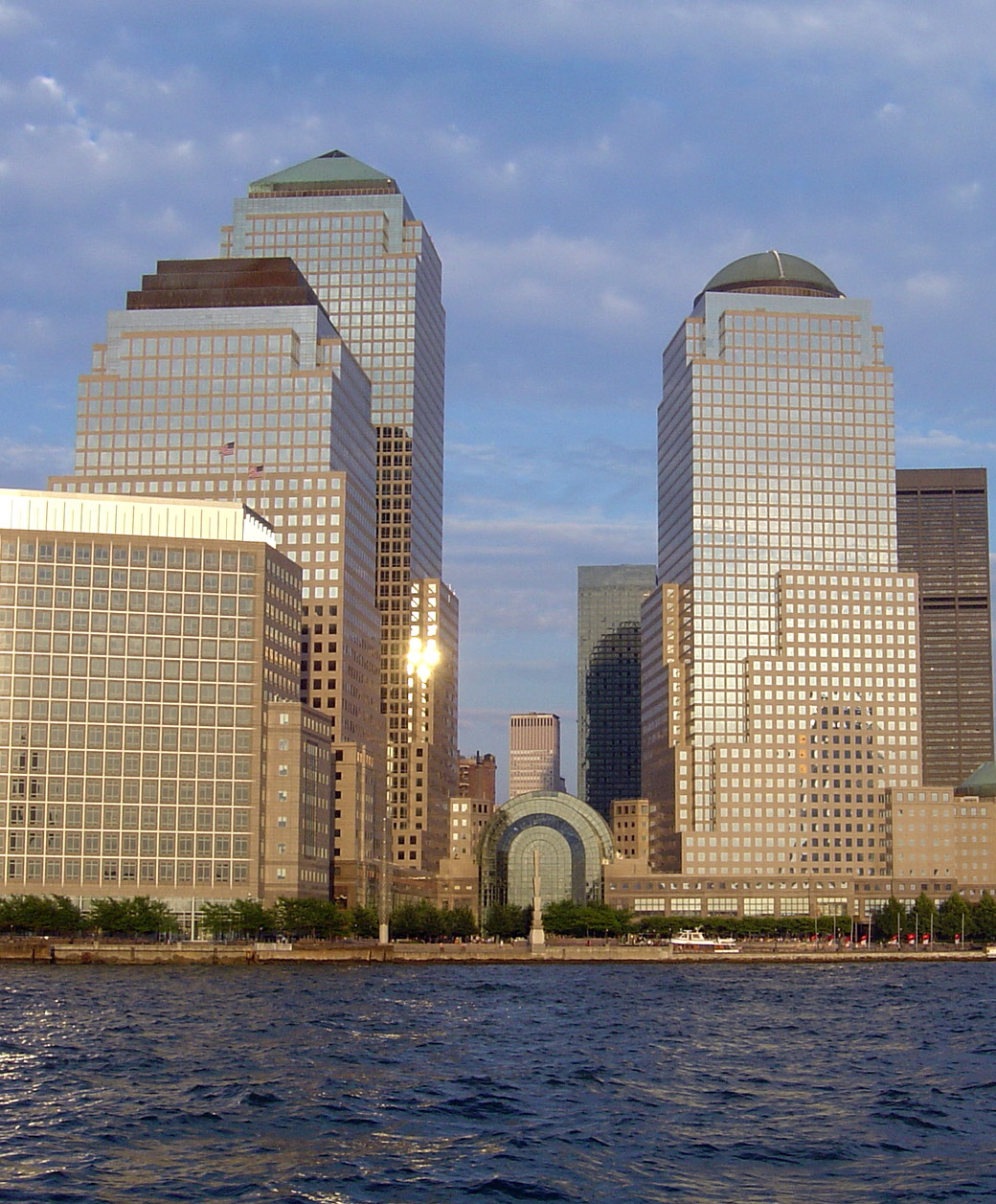 The World Financial Center in New York City, as seen from the Hudson River. Camera: SONY DSC-P10